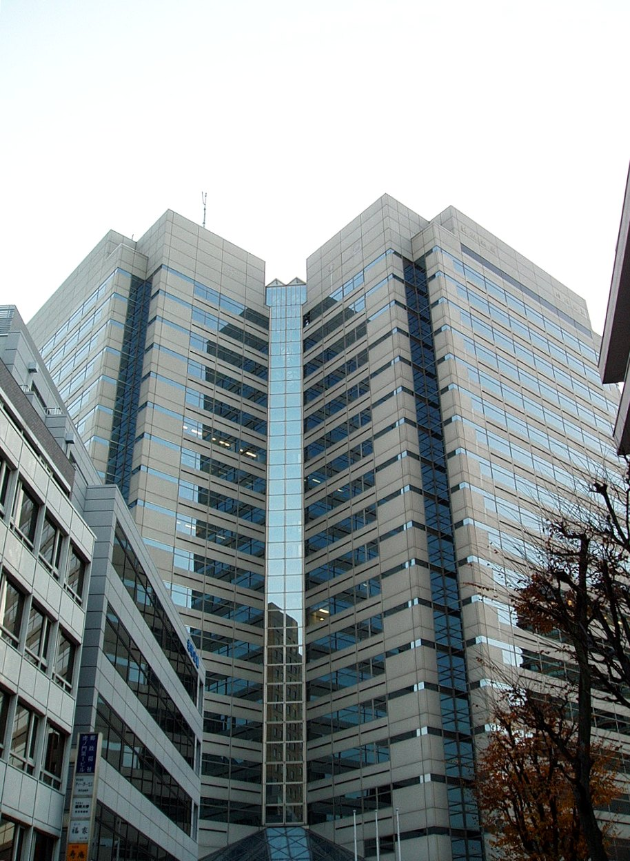 Toranomon Twin Building (formerly Shin-Nikko Building) located in Toranomon 2-chome, Minato-ku, Tokyo, Japan.